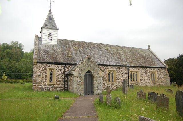 St Michael's and All Angels church